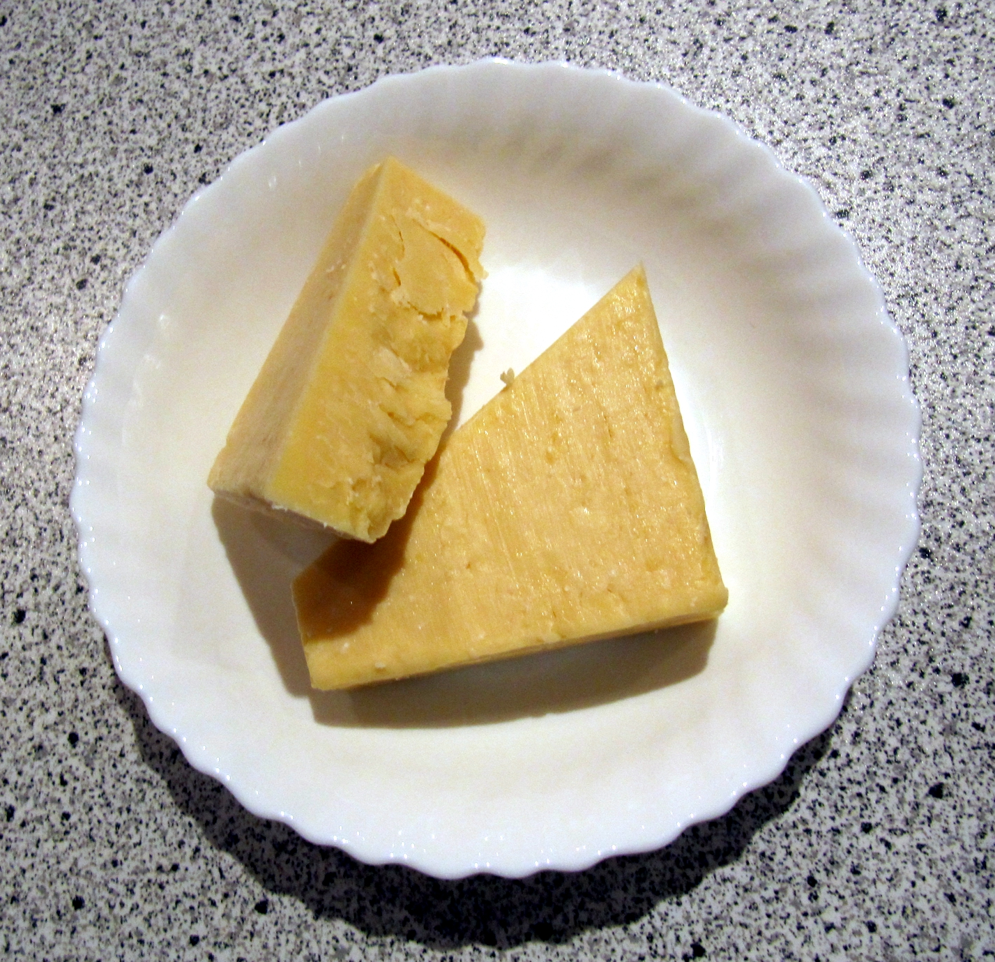 White Welsh Farmhouse Cheese